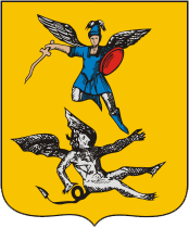 Arkhangelsk (Arkhangelsk oblast), coat of arms (1781)